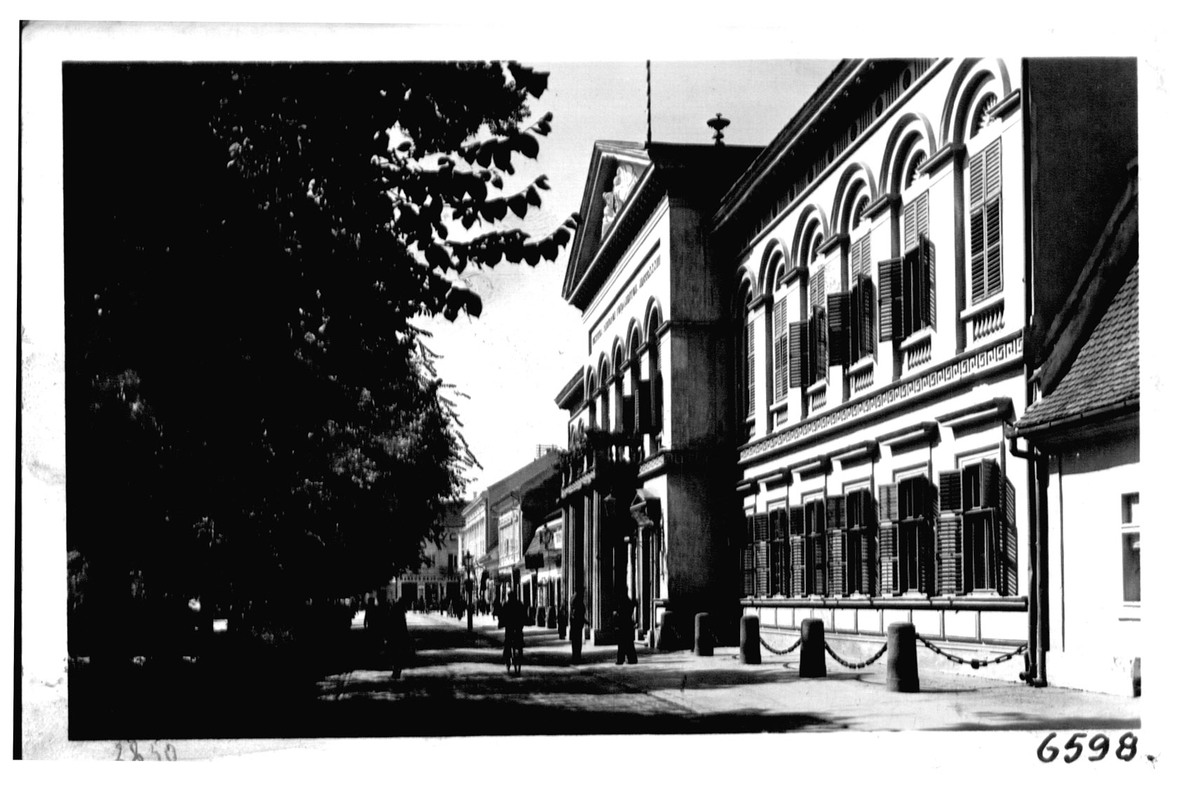 The building of the Magistrate in Pančevo, the current National Museum